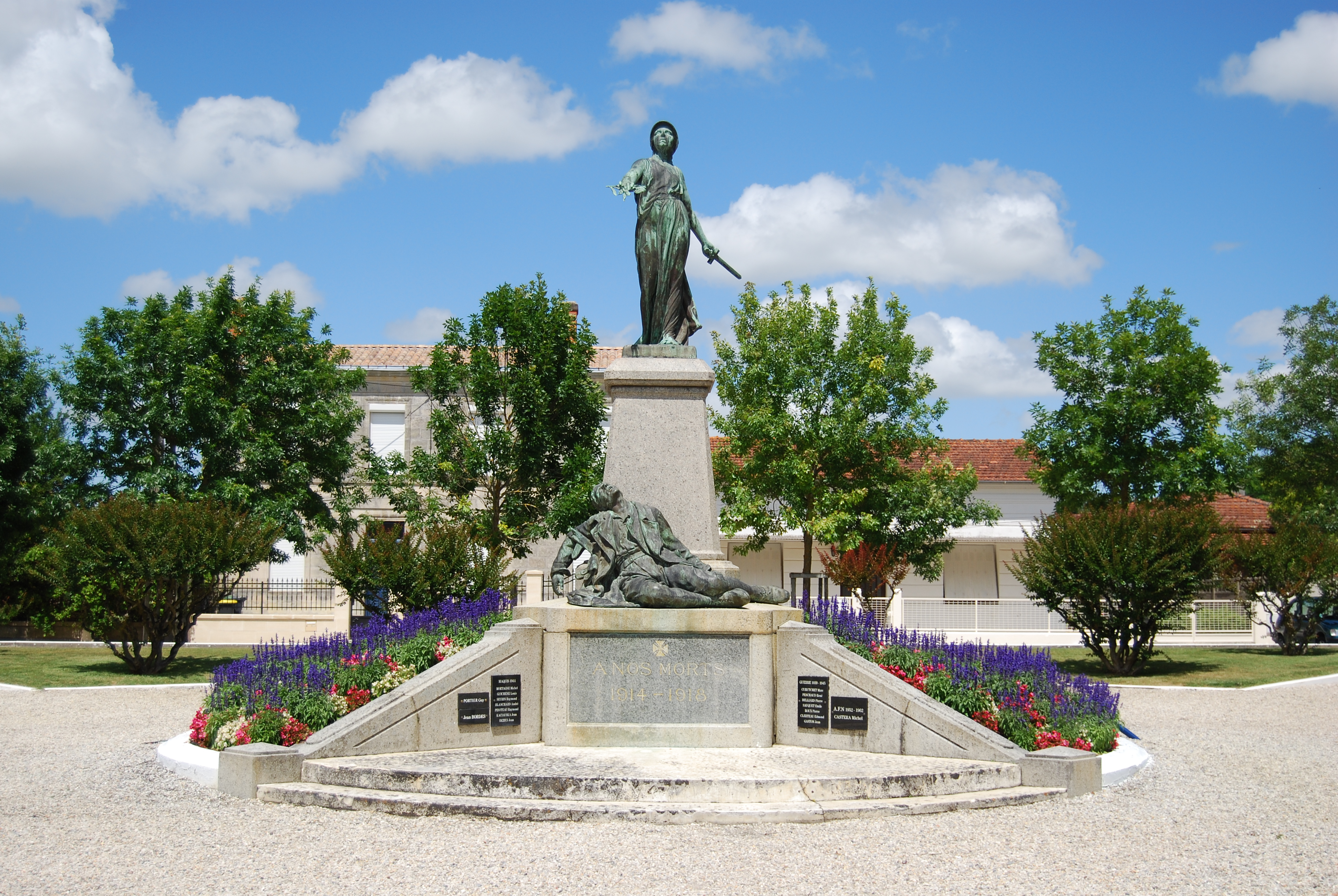 A memorial on the place of church in Lesparre-Médoc